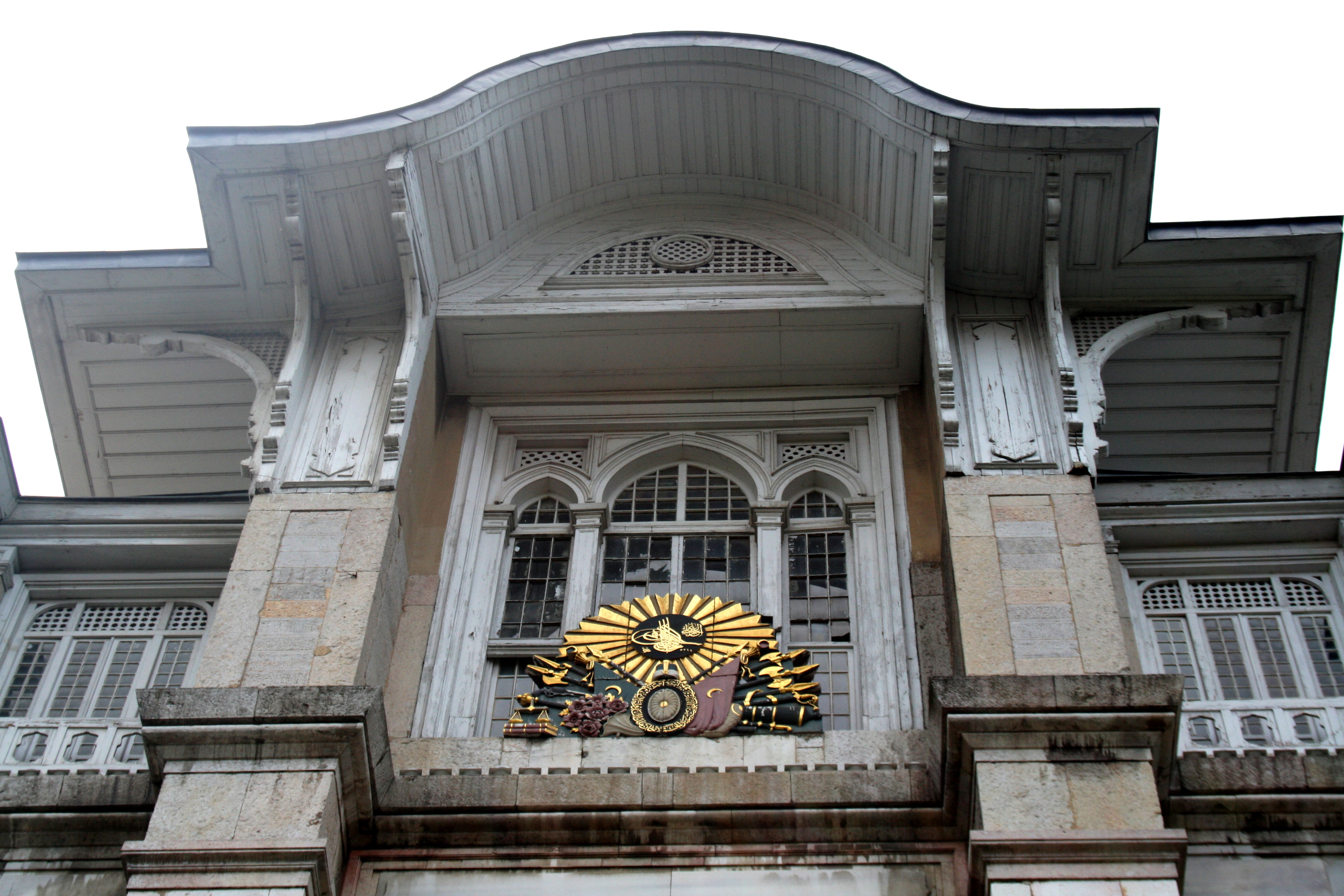 Marmara University